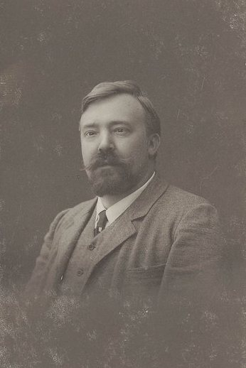 Portrait of Max Maurenbrecher